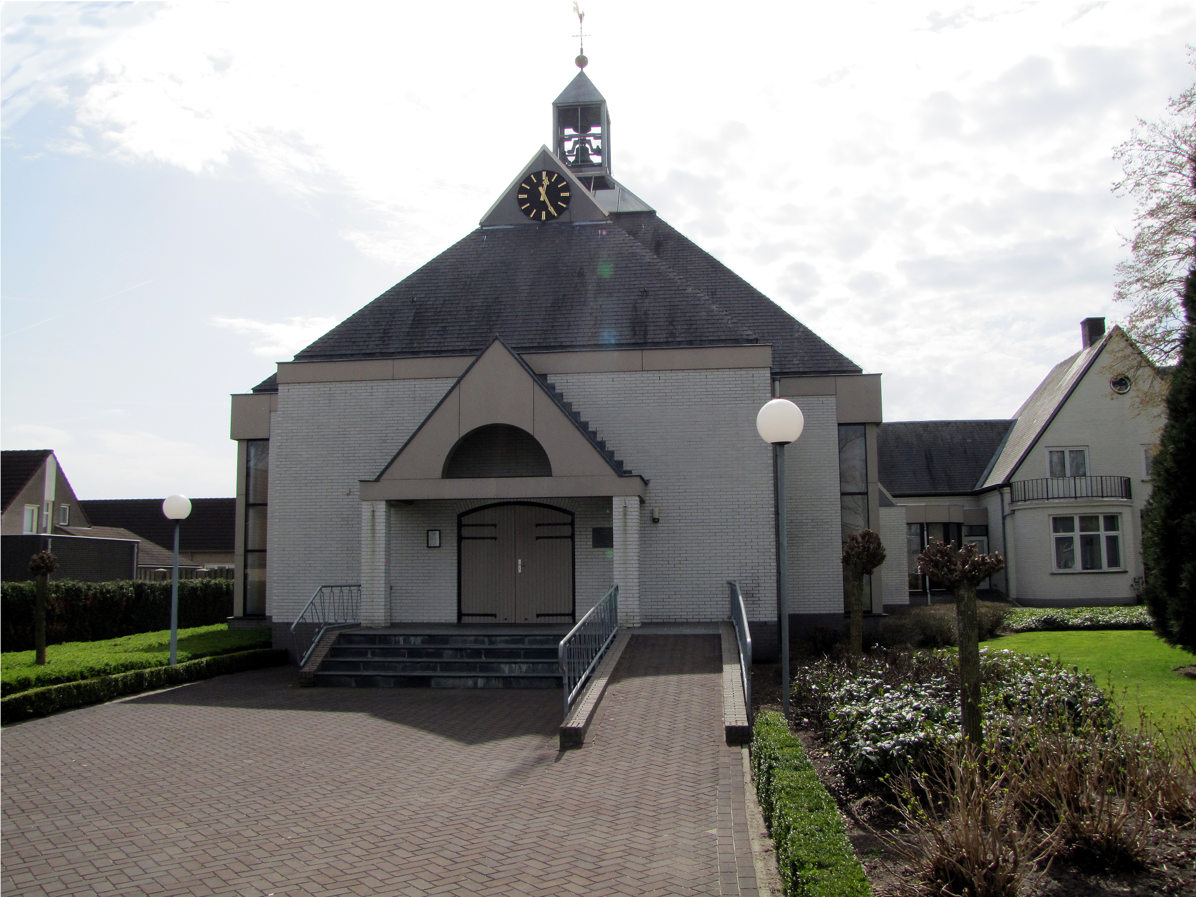 Sint-Oda church in Ysselsteyn NL